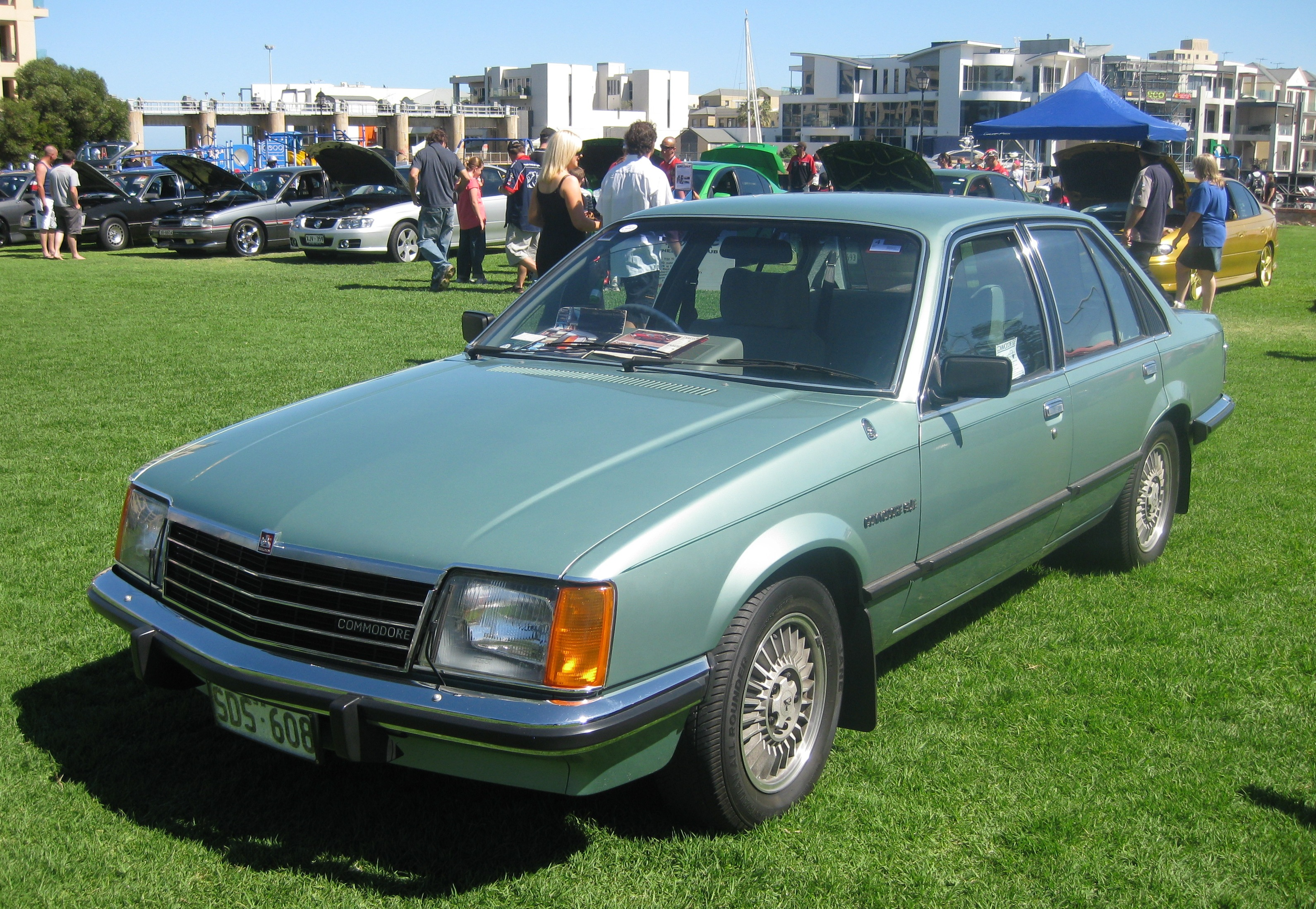 Holden VB Commodore SL/E (1978-1980)